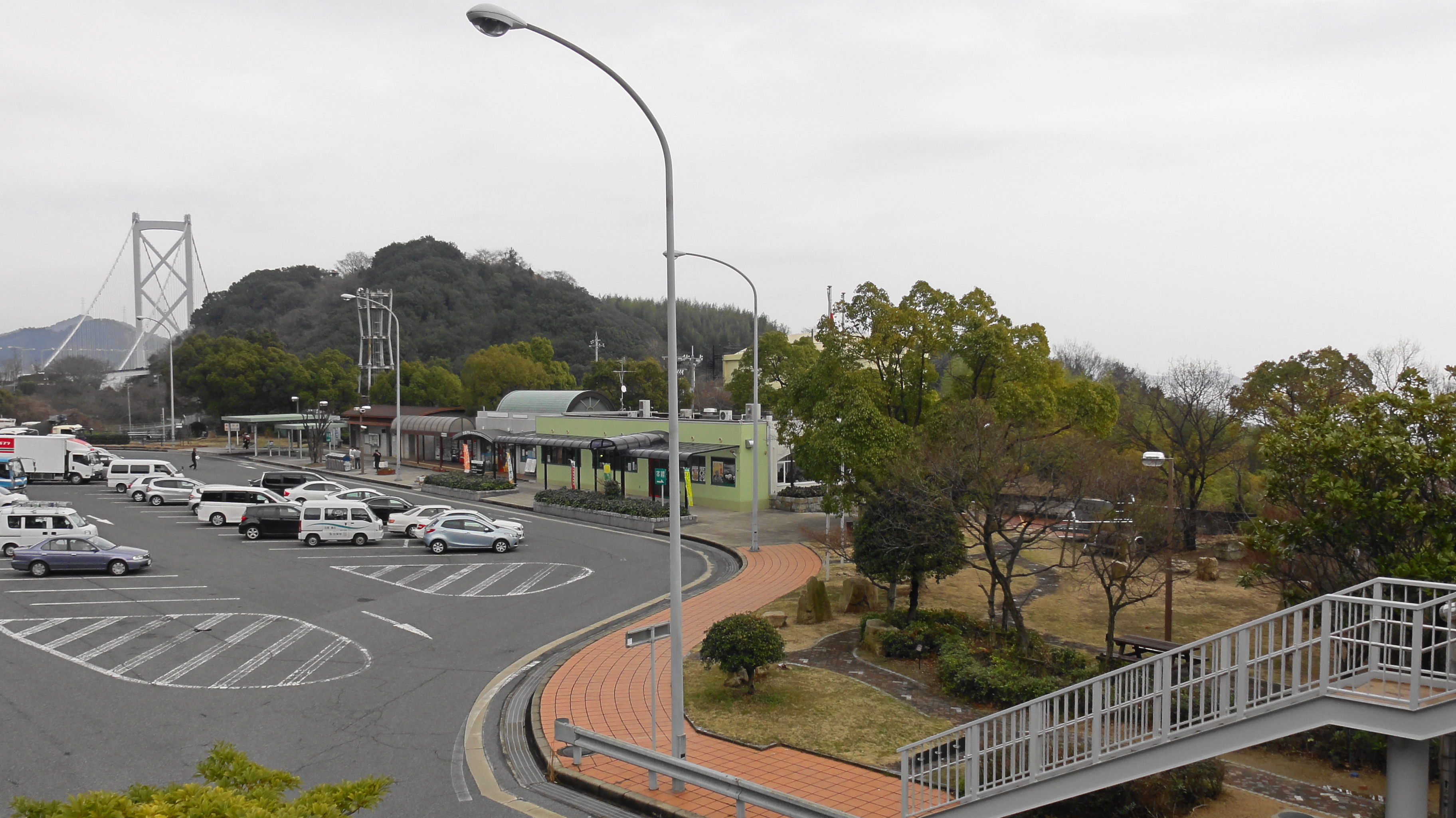 Ohama Parking Area kudari, Japan